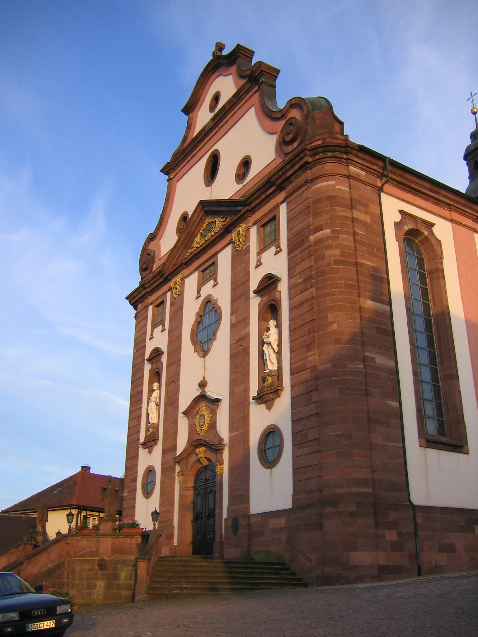 Ettenheim, Baden-Württemberg, Germany